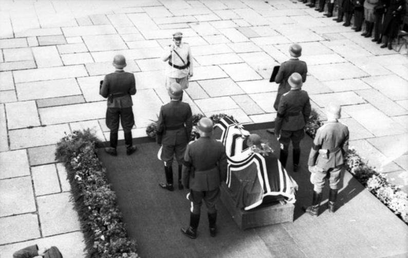 Tannenberg Memorial (not exists anymore), East Prussia (now Poland), General Günther Korten's funeral, 22.07.1944.